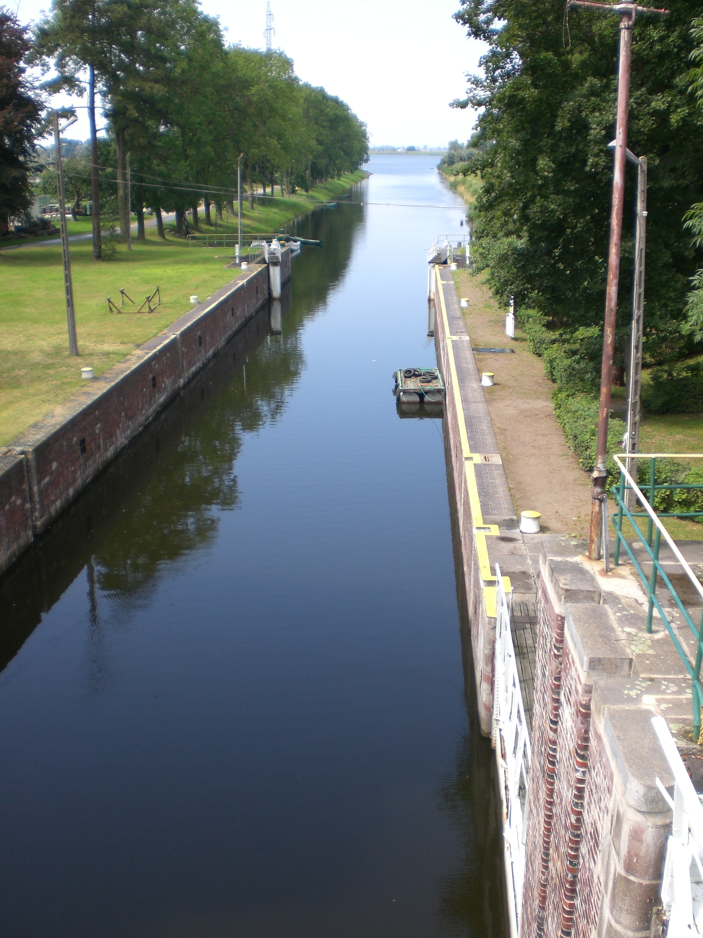 Lock in Przegalina